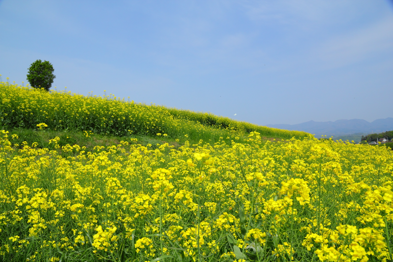 鹿田山の菜の花畑, Field of rapeseed at the Shikada hill